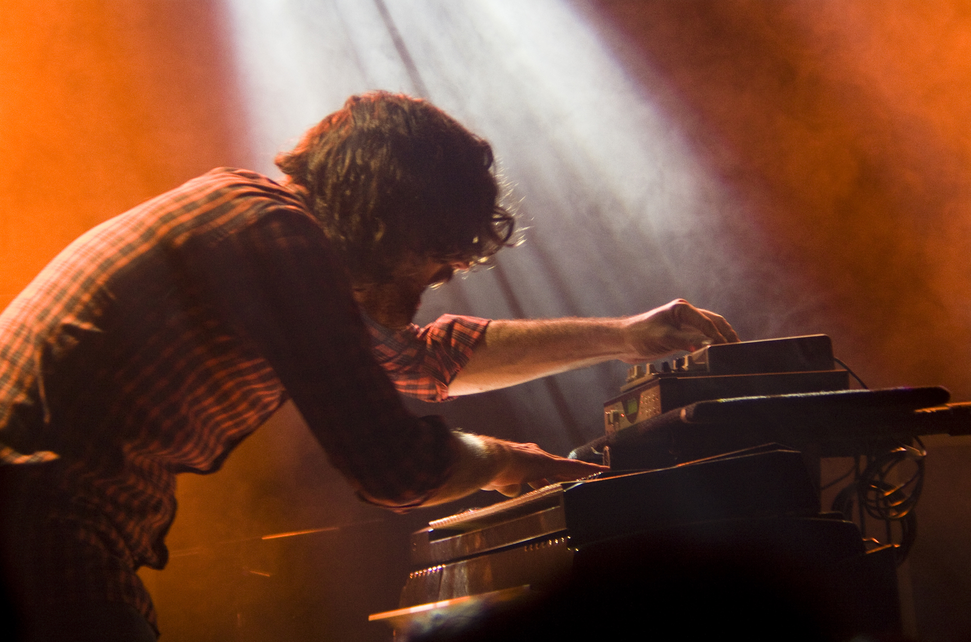 Leo Limeres at La Trastienda